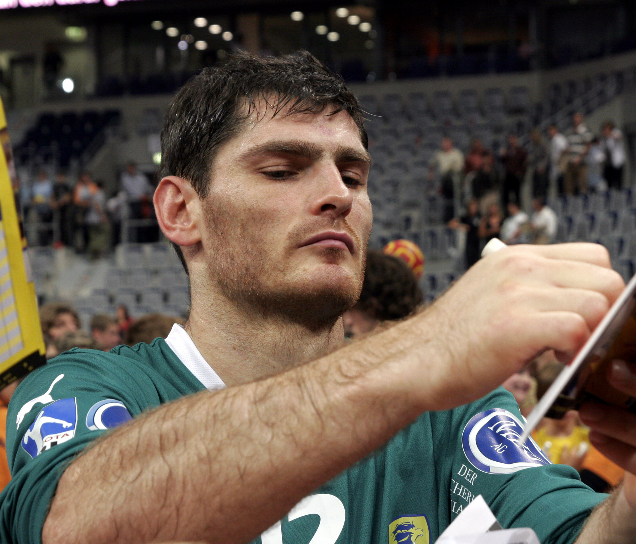 Henning Fritz, handball player of Rhein-Neckar Löwen (Germany), in the SAP Arena after the game RNL vers. HSG Nordhorn on October 3rd, 2007